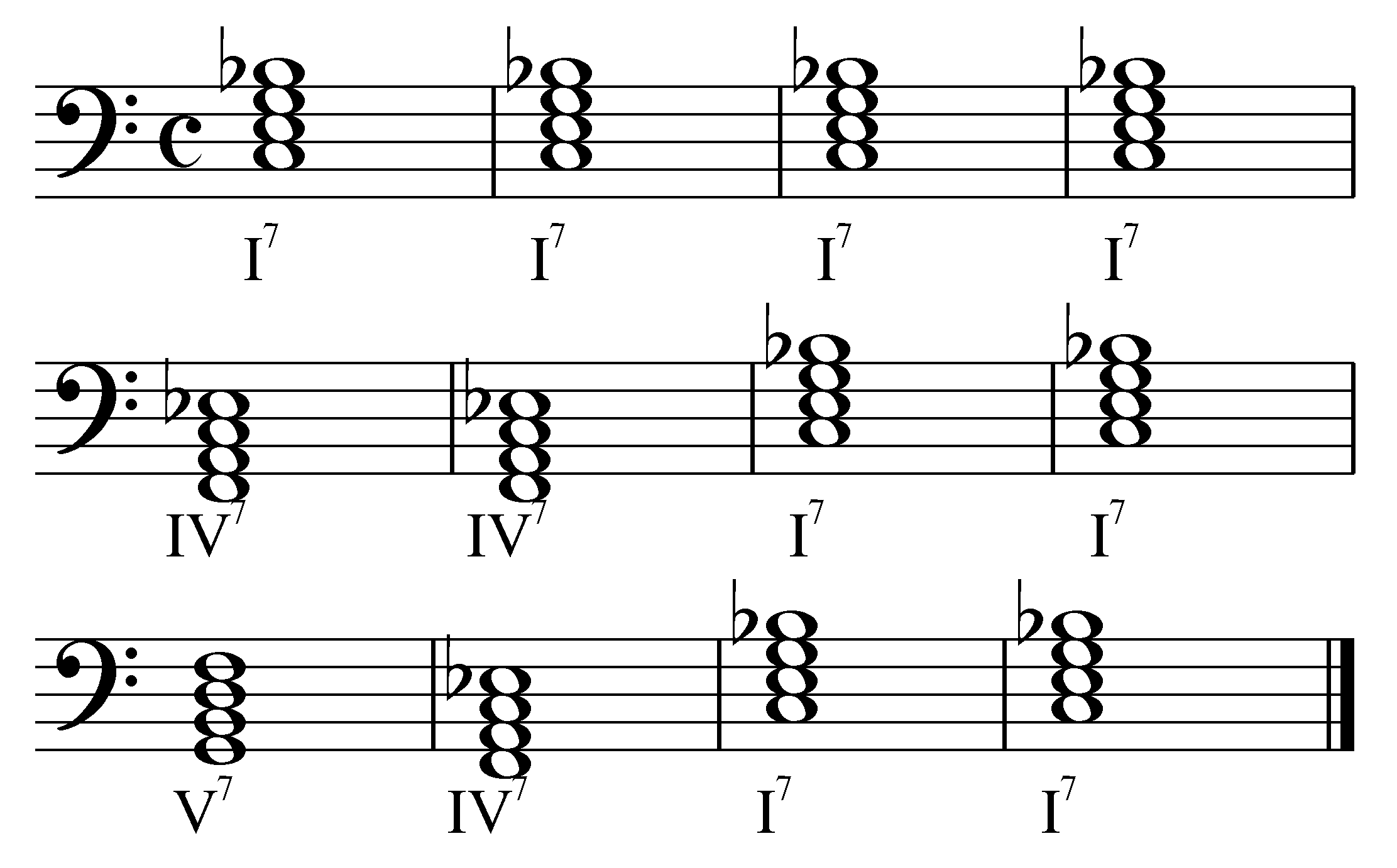 Twelve bar blues in C, block chords. Created by Hyacinth (talk) 09:20, 17 December 2010 using Sibelius 5.